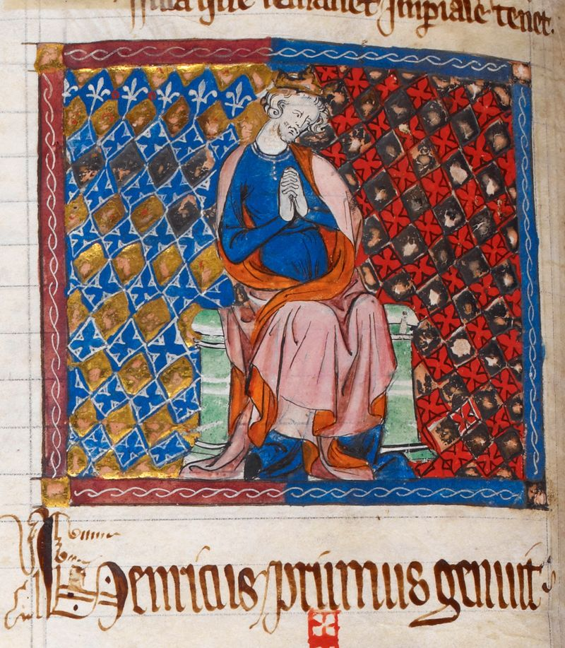 Henry I Cotton Claudius D. ii, f. 45v.